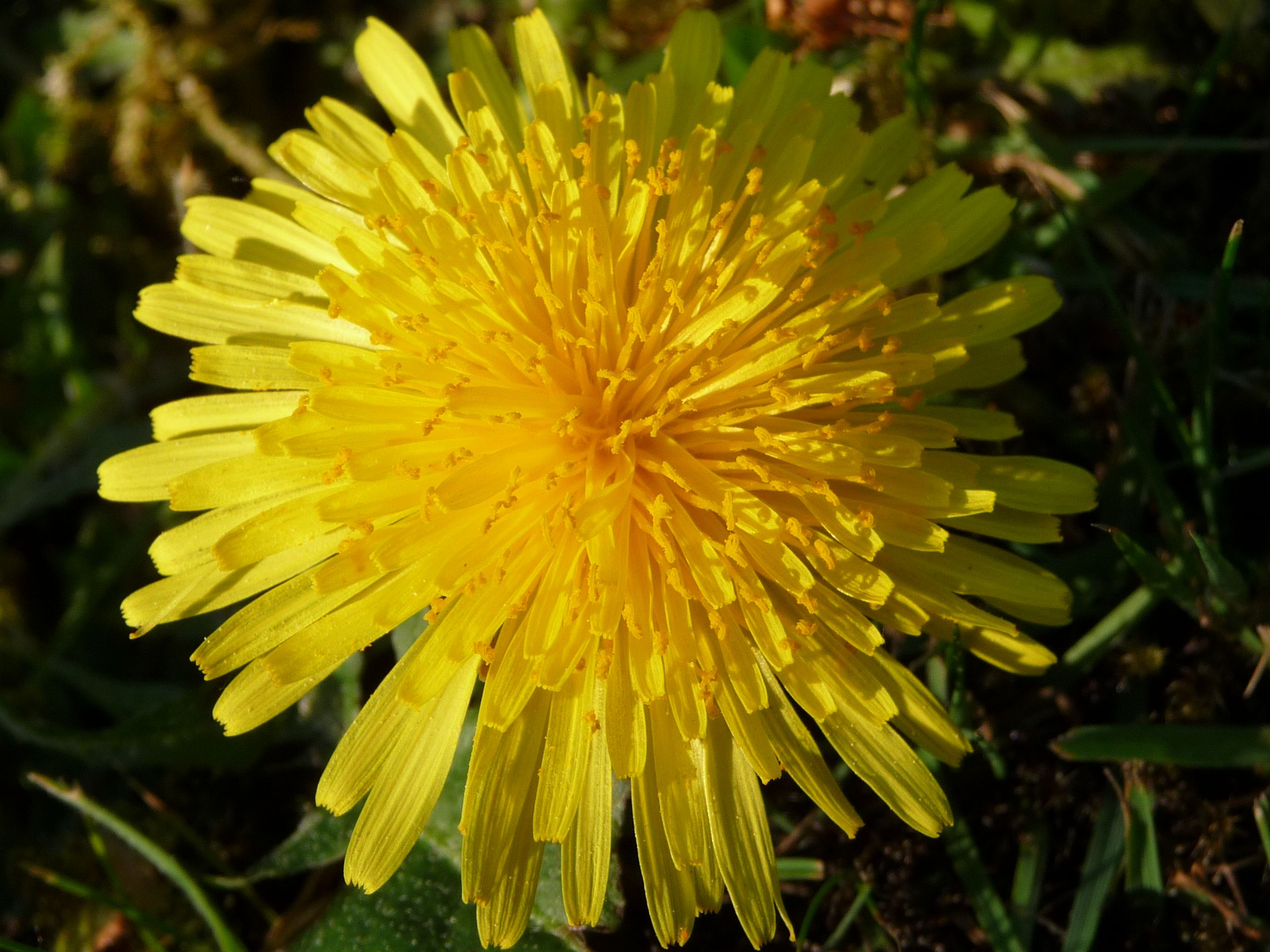 Blossom dandelion / Taraxacum officinale in Germany /North Rhine-Westphalia